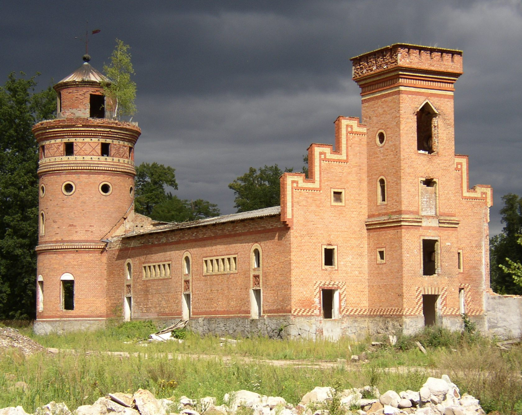 Granary in Neuruppin-Gentzrode in Brandenburg, Germany